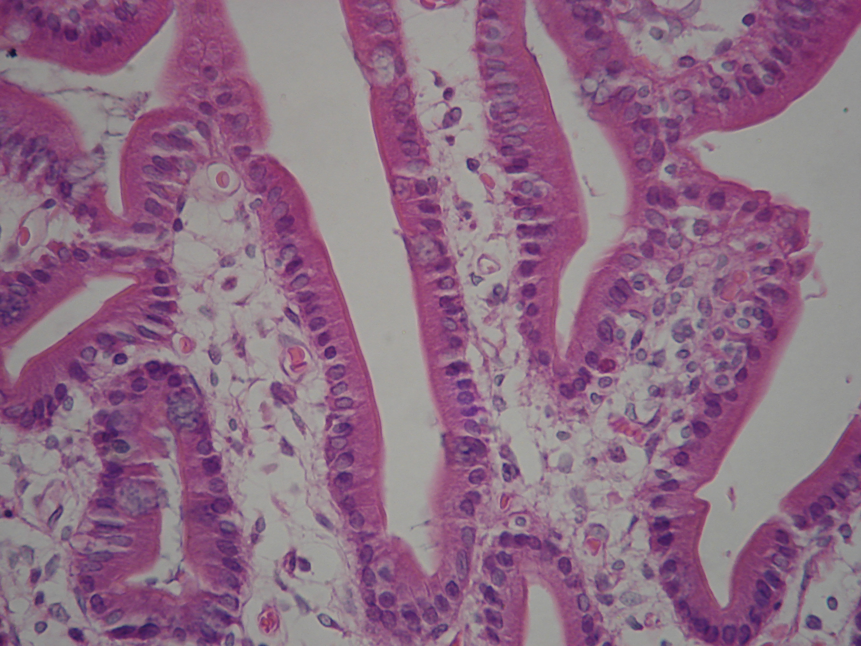 400x light microscope image of duodenum showing brush-border, shot with 6MP Sony Cybershot